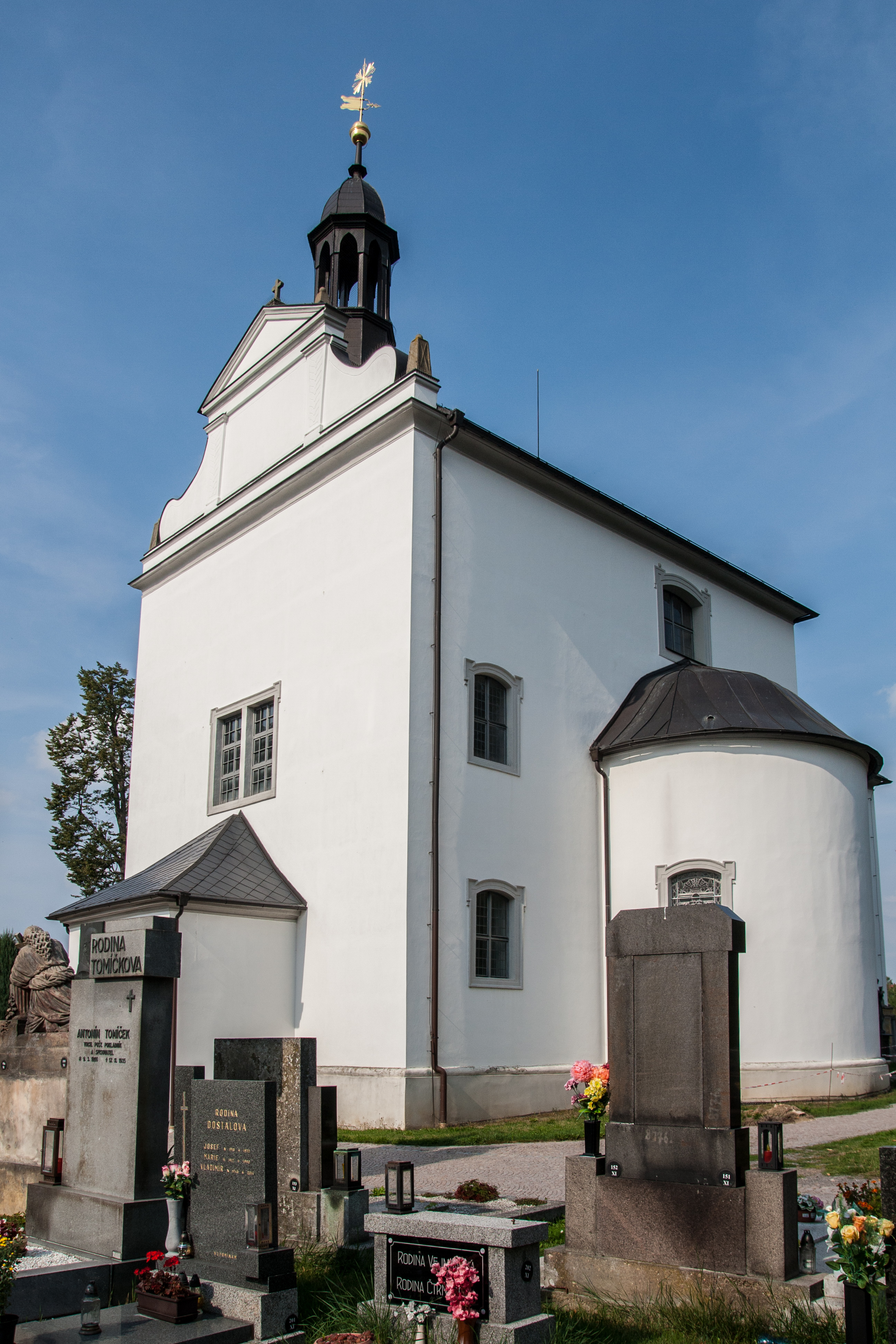 Sain Anne church at cemetery in Litomyšl, Svitava District, Pardubice Region, Czechia